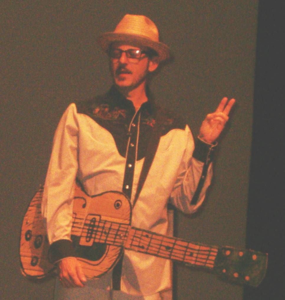 Dan Piraro with a cardboard guitar at NAVS Vegetarian Summerfest 2006. This photo's quality sucks, but it's the best I could get with my camera, and I think it's better than no photo. If anyone can get a better photo, please upload it and replace this one.